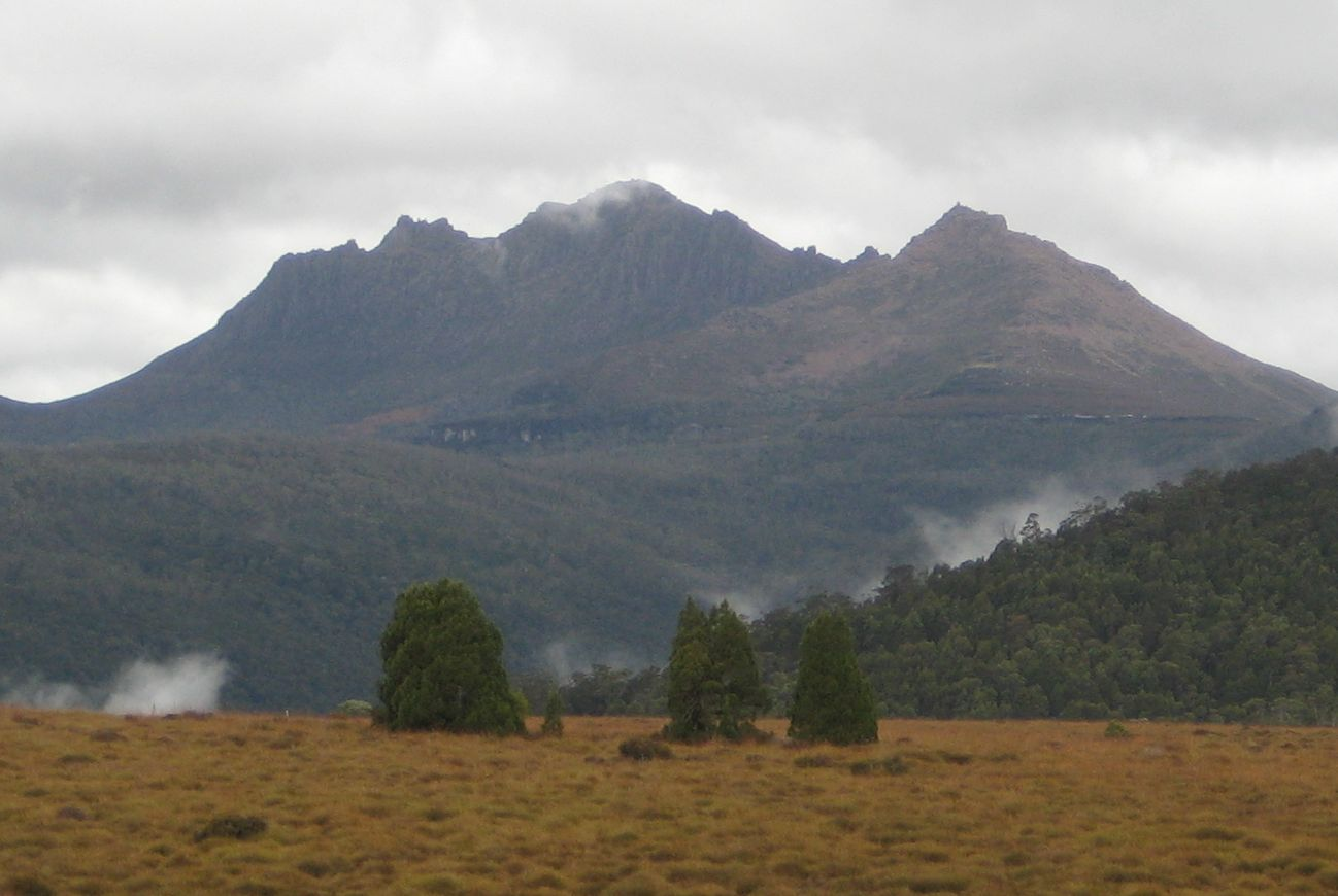 Mount Ossa from near Pine Forest Moor